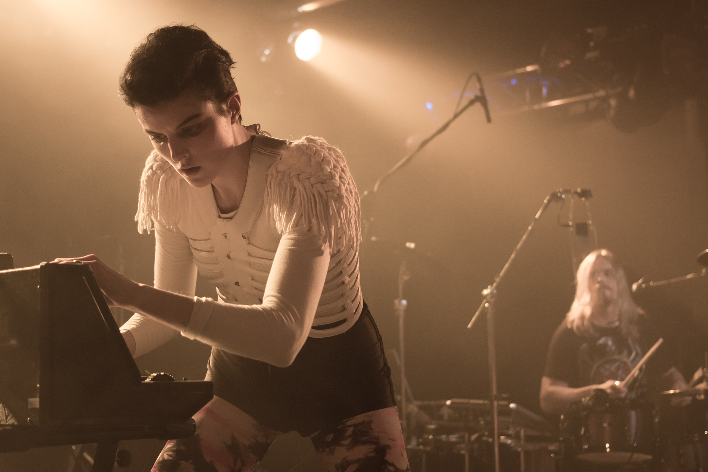 Karin Park, live on stage in Munich, on Jan 5th, 2013. In the background her brother and drummer, David Park.